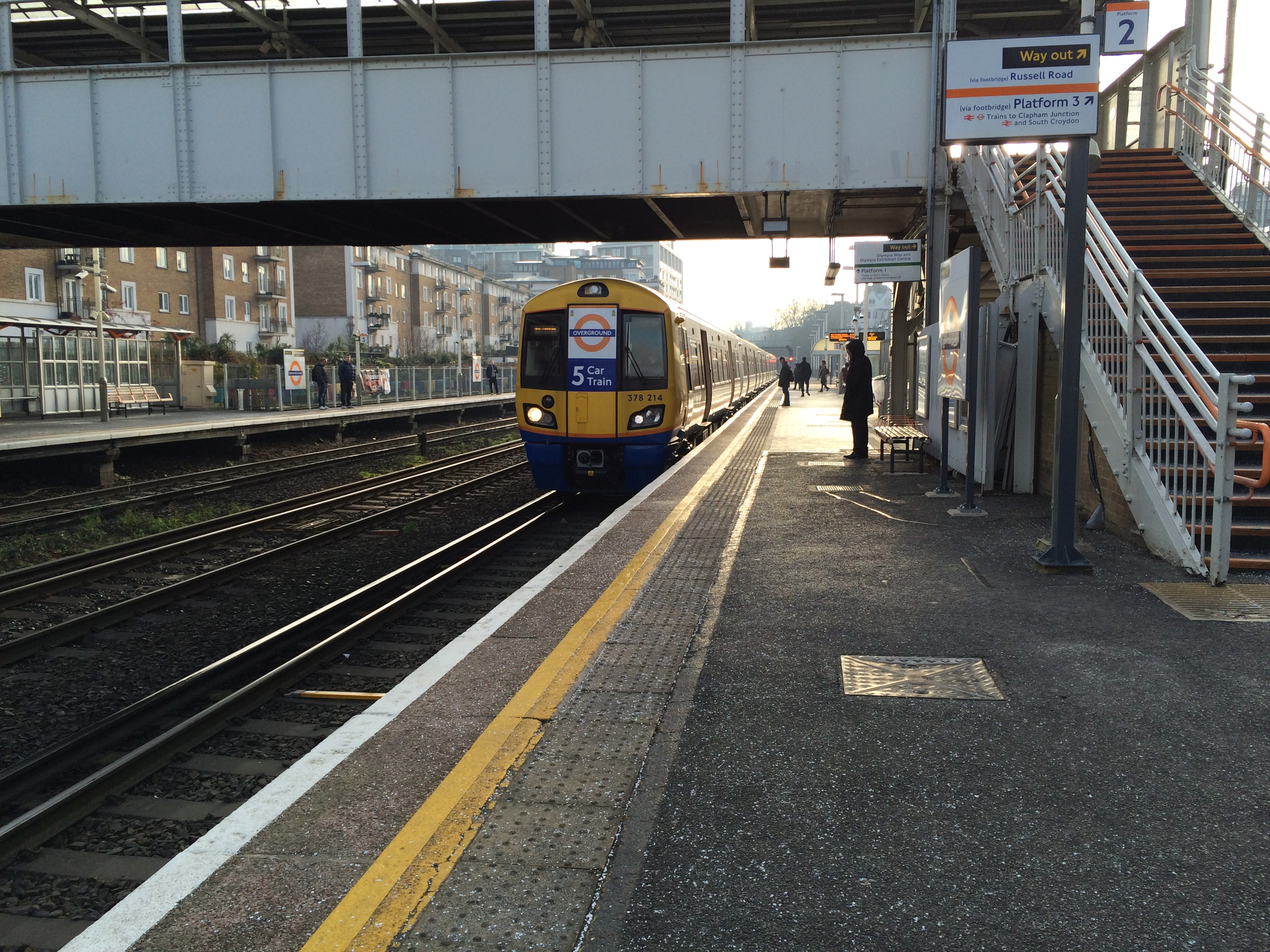 A London Overground Class 378 (378214) arrives at Kensington Olympia platform 2